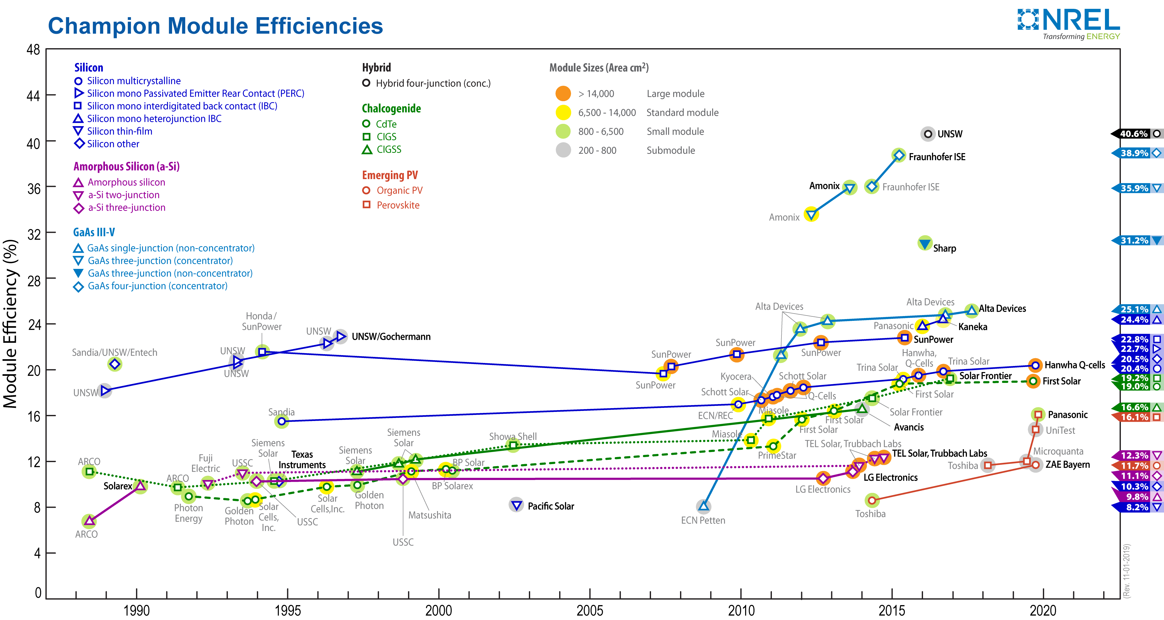 Conversion efficiencies of champion solar modules worldwide from 1988 through 2019 for various photovoltaic technologies. Efficiencies determined by certified agencies/laboratories.